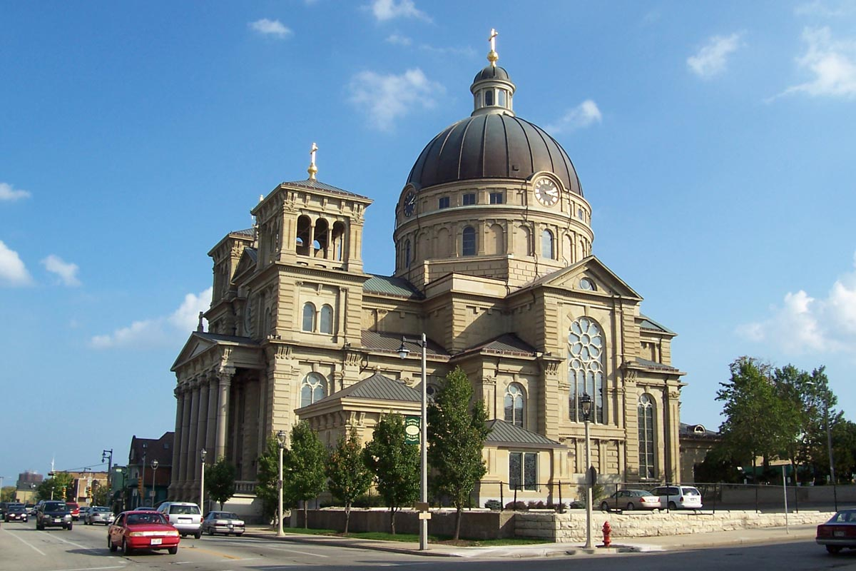 Copyright © 2005 Sulfur The historical Basilica of St. Josaphat, as seen from the corner of Kosciuszko Park in Milwaukee, Wisconsin.